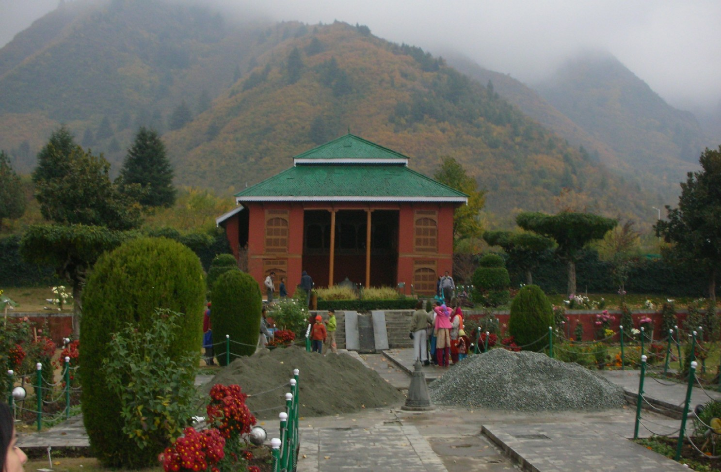 Amit Raina